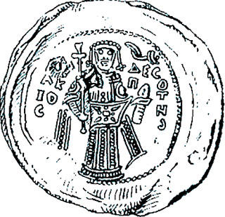 Coin of Byzantine Emperor Isaac II Angelos, found in Isaccea, Romania